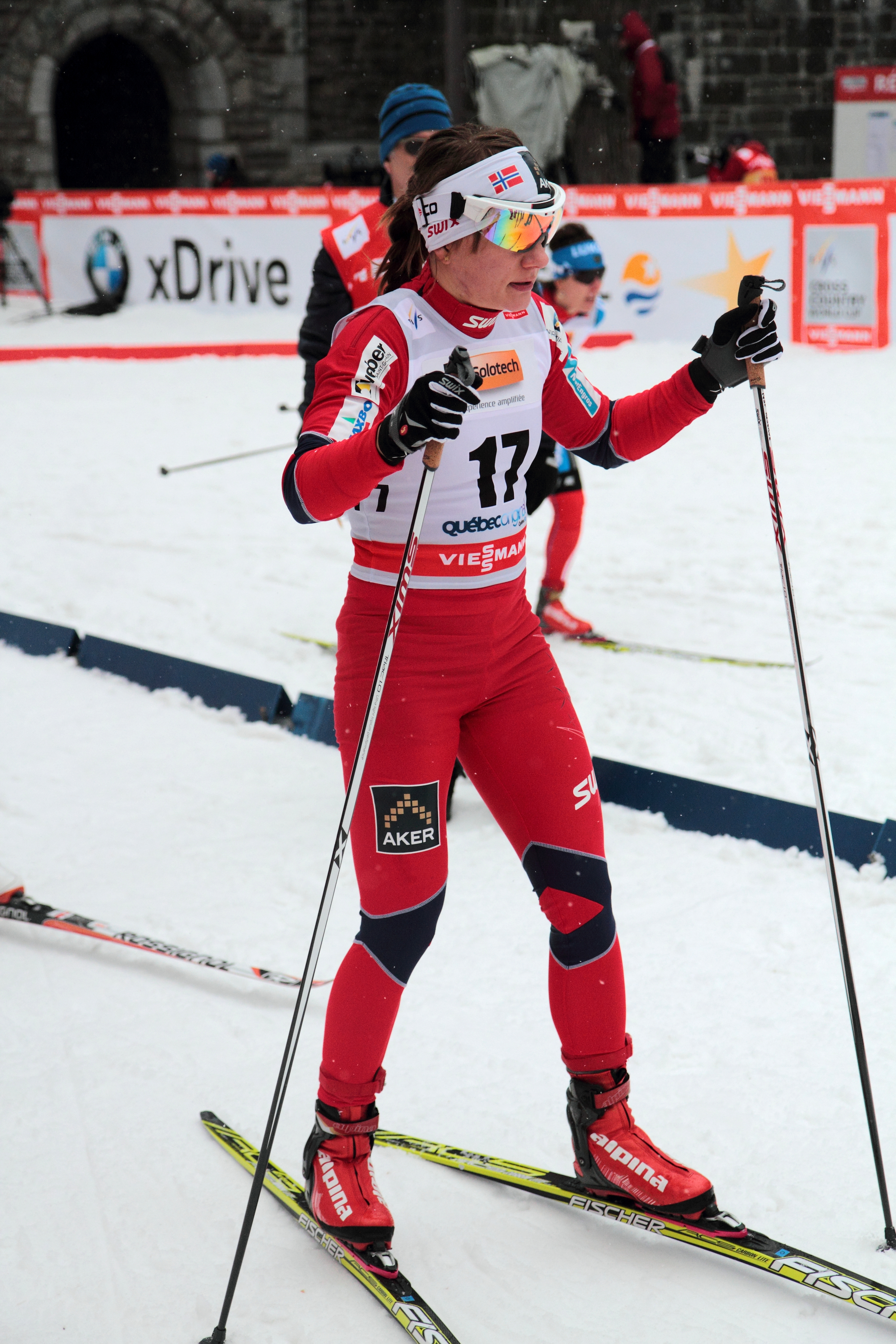 Maiken Caspersen Falla, FIS Cross-Country World Cup 2012, Quebec, Canada.